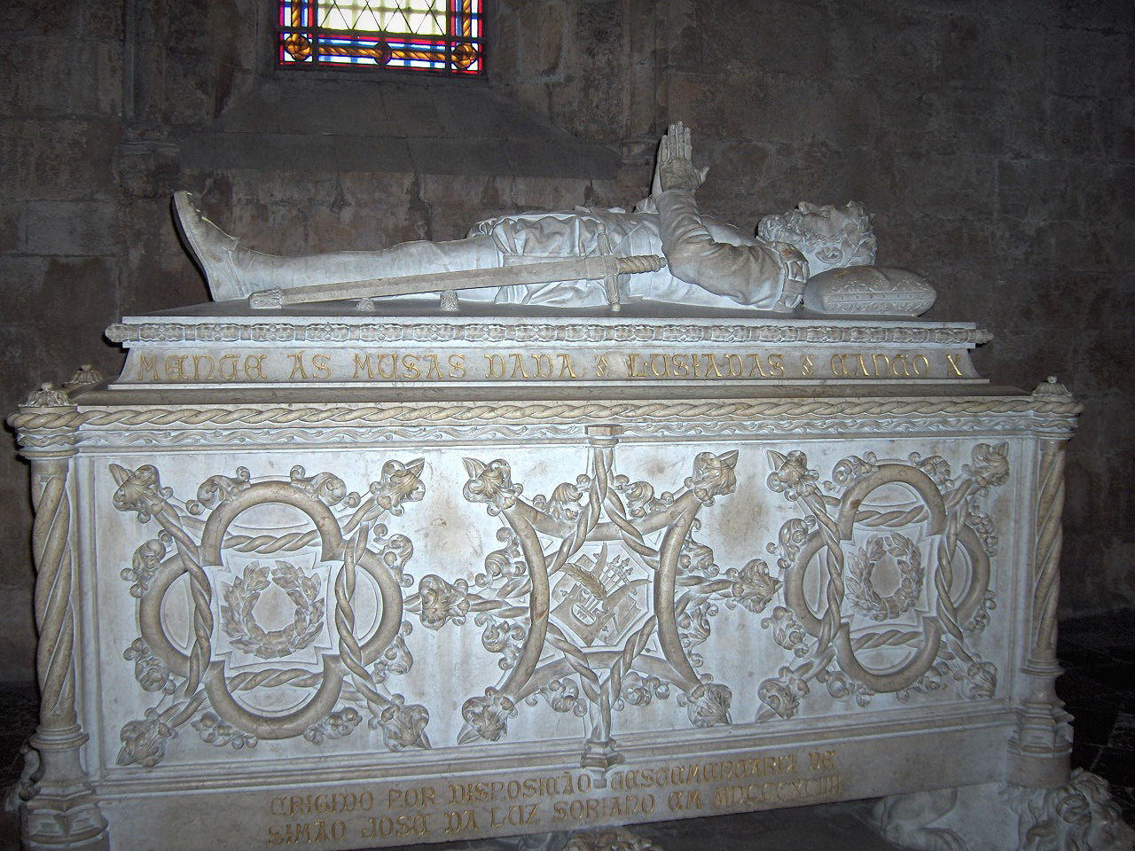 Tomb of Camoês in the church of the Jerónimos Monastery, Belém, Portugal